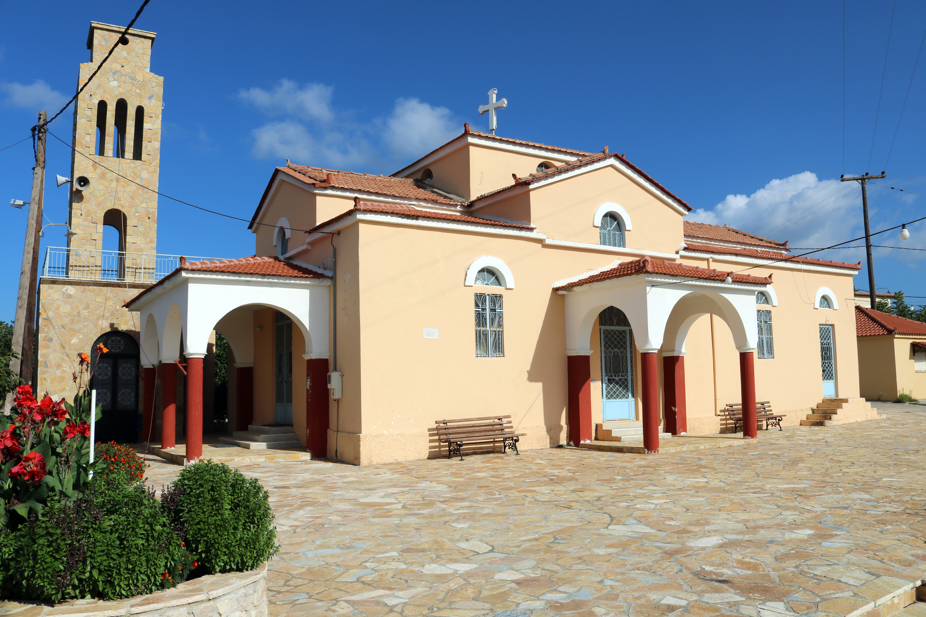 Church in Pappoulia, local communitie of Pylos, Greece